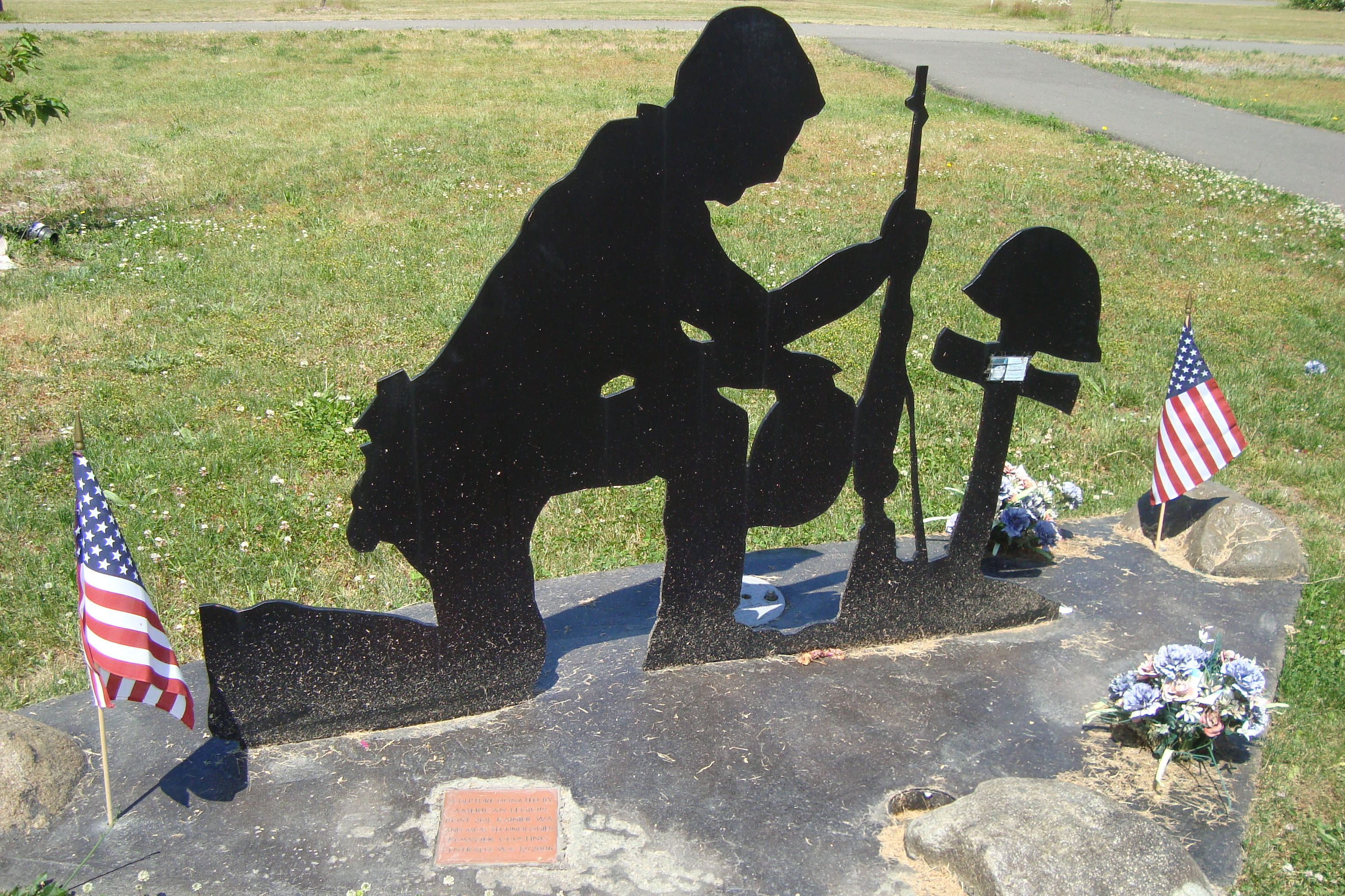 This is a sculpture in the Veterans Memorial Park in Rainier, Washington. The sculpture was donated to the city's park by the American Legion, Post 264, as of 2006.